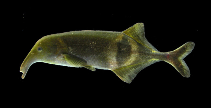 Campylomormyrus phantasticus.